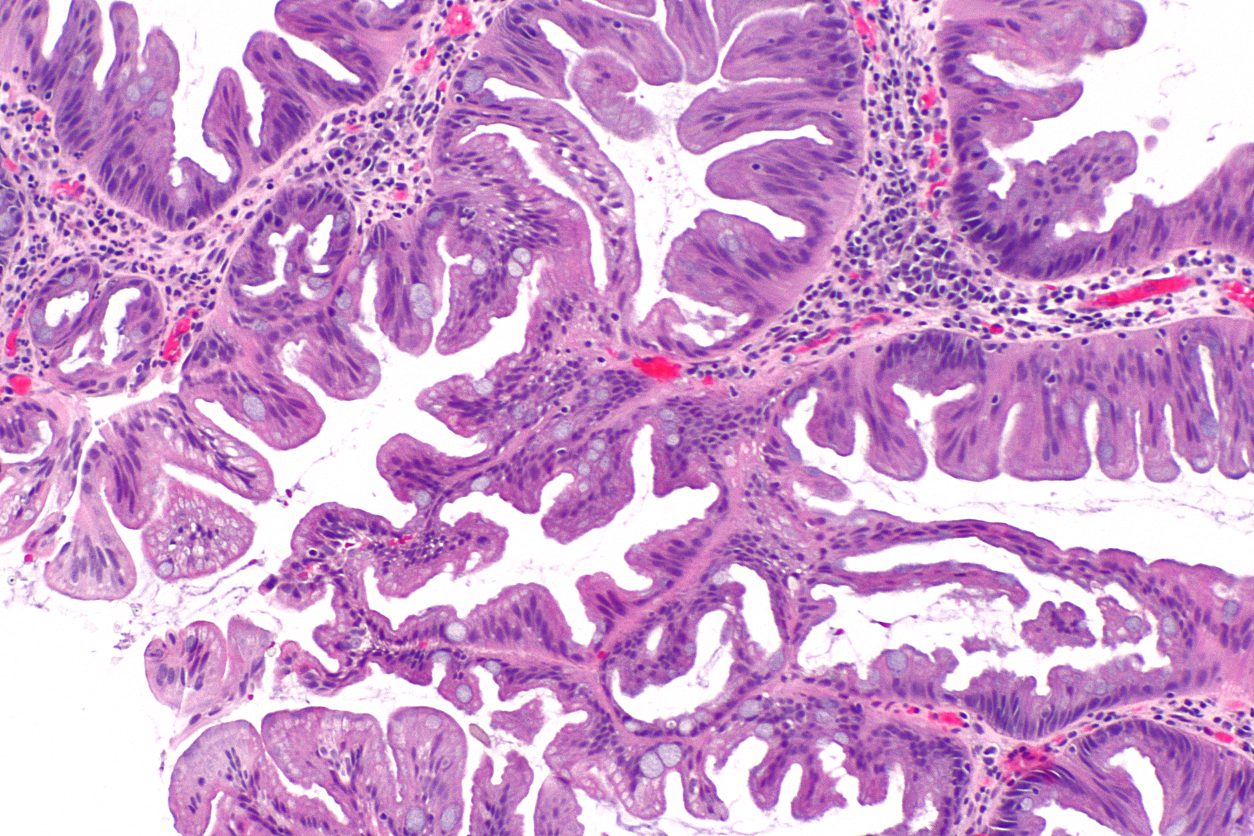 Micrograph of a traditional serrated adenoma. H&E stain. Related images TSA - low mag. TSA - intermed. mag. TSA - high mag. TSA - very high mag.